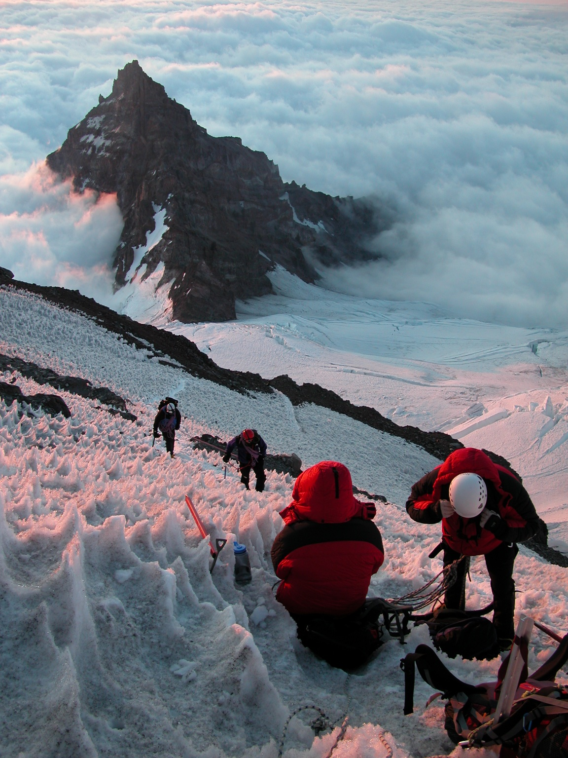 Little Tahoma as seen from Mount Rainier, Washington, United States